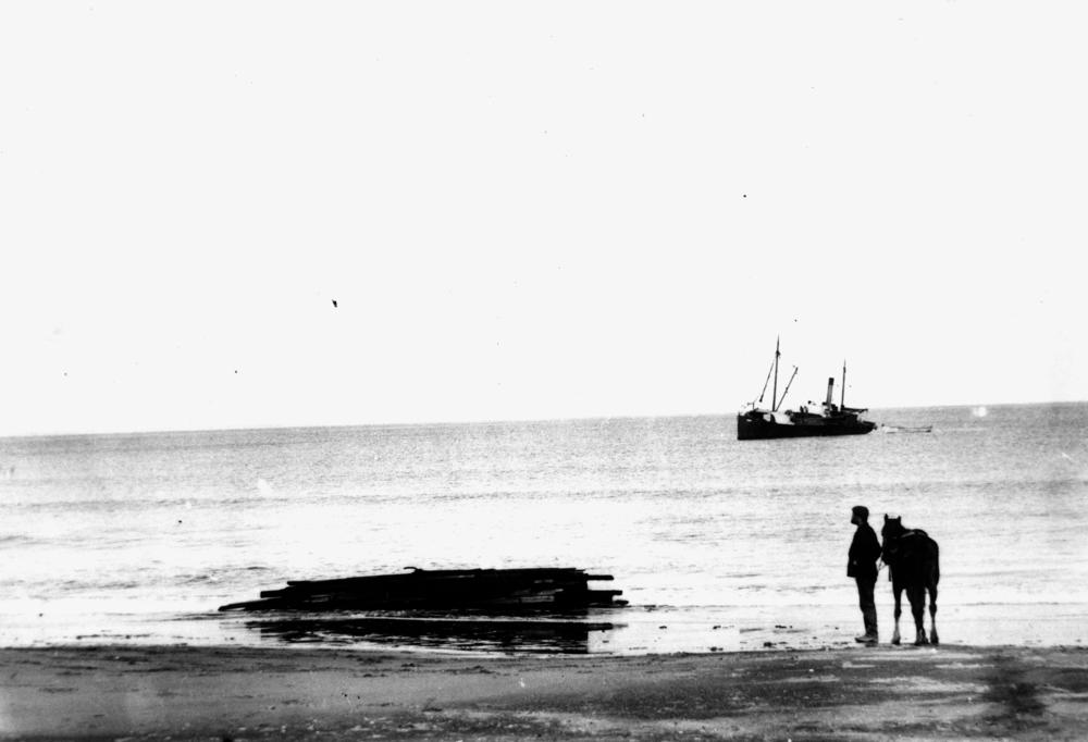 Kahu (ship). The 'Kahu' unloading timber at Tokomaru Bay, 1930.